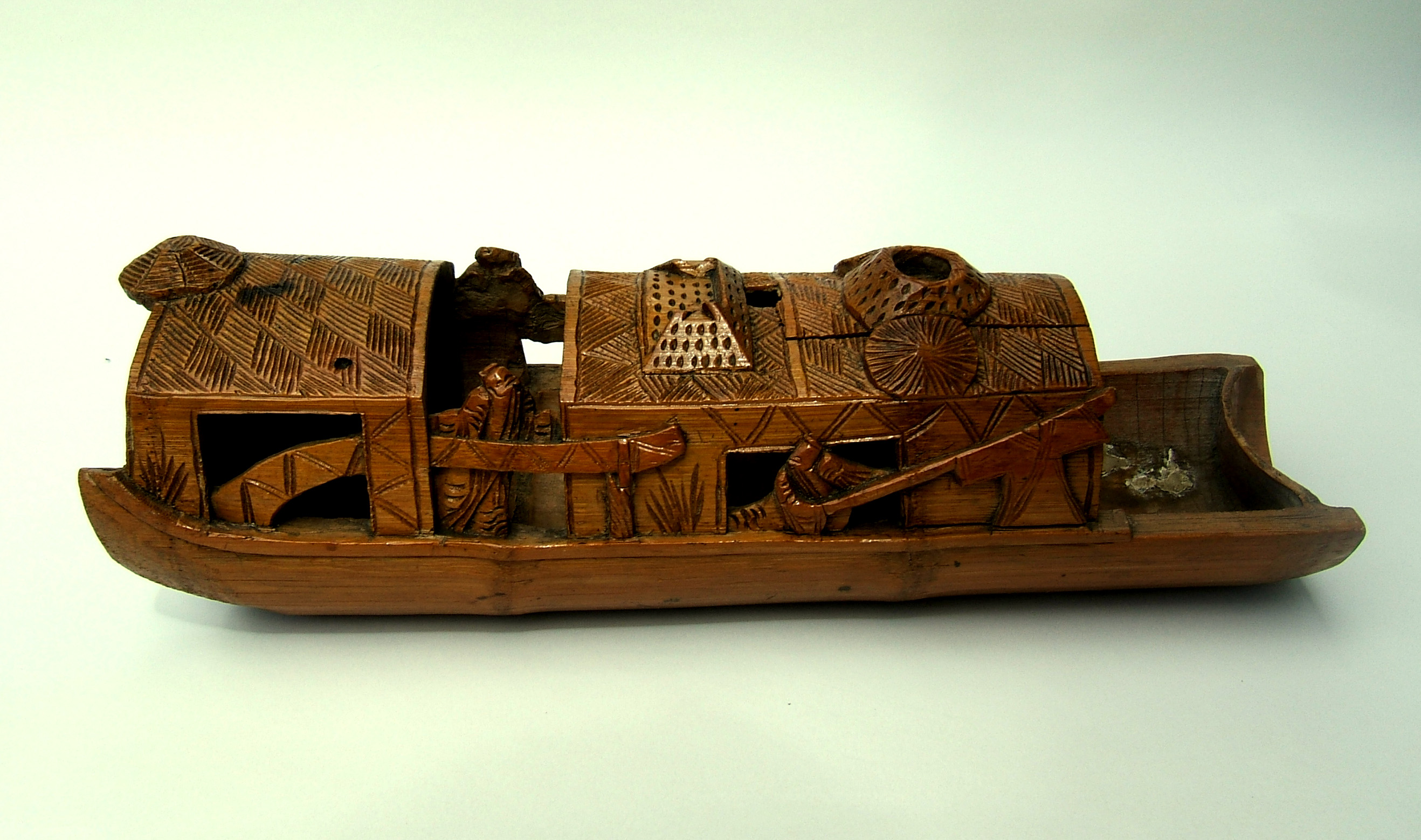 Chinese bamboo carving, Qing Dynasty, c.1900 40 cm long, 12 cm diameter